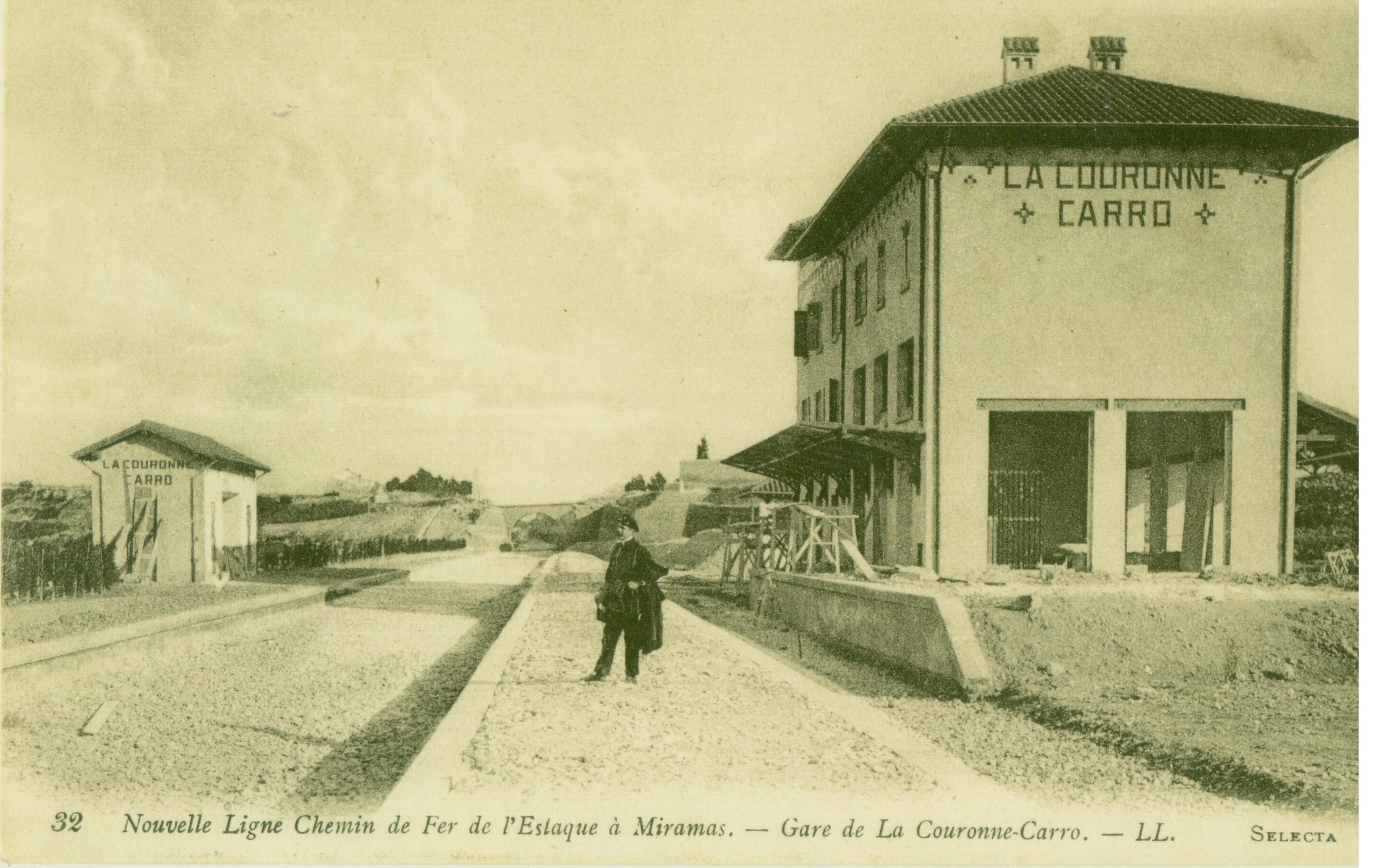 New railway track from l'Estaque to Miramas. - La Couronne-Carro Station. - LL. - Selecta